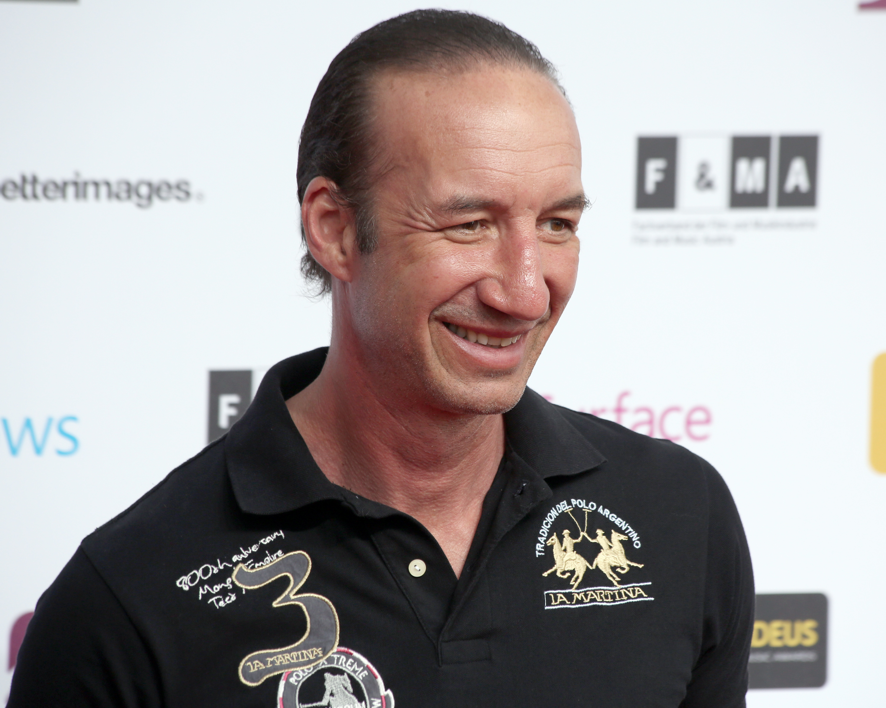 Michael Seida at the Amadeus Austrian Music Award 2014 at Volkstheater in Vienna